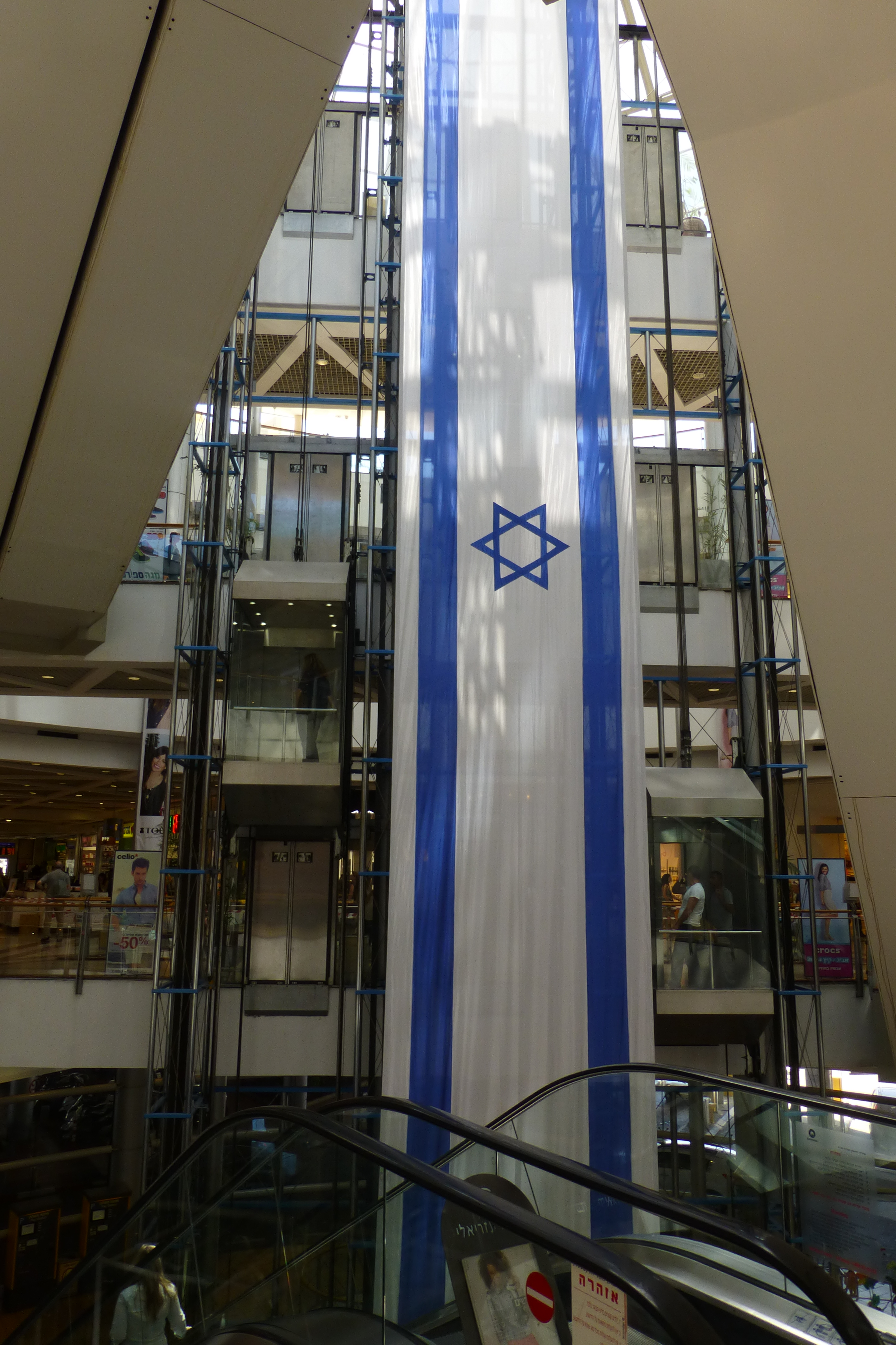 Azriely Towers